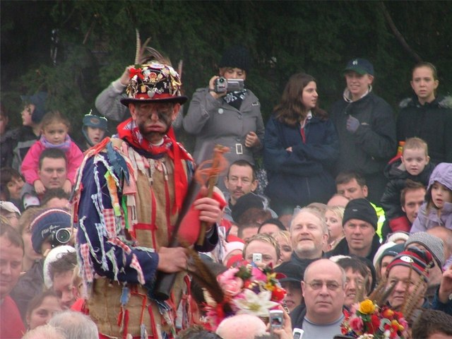 The Fool at the Haxey Hood, Haxey, North Lincolnshire, Great Britain